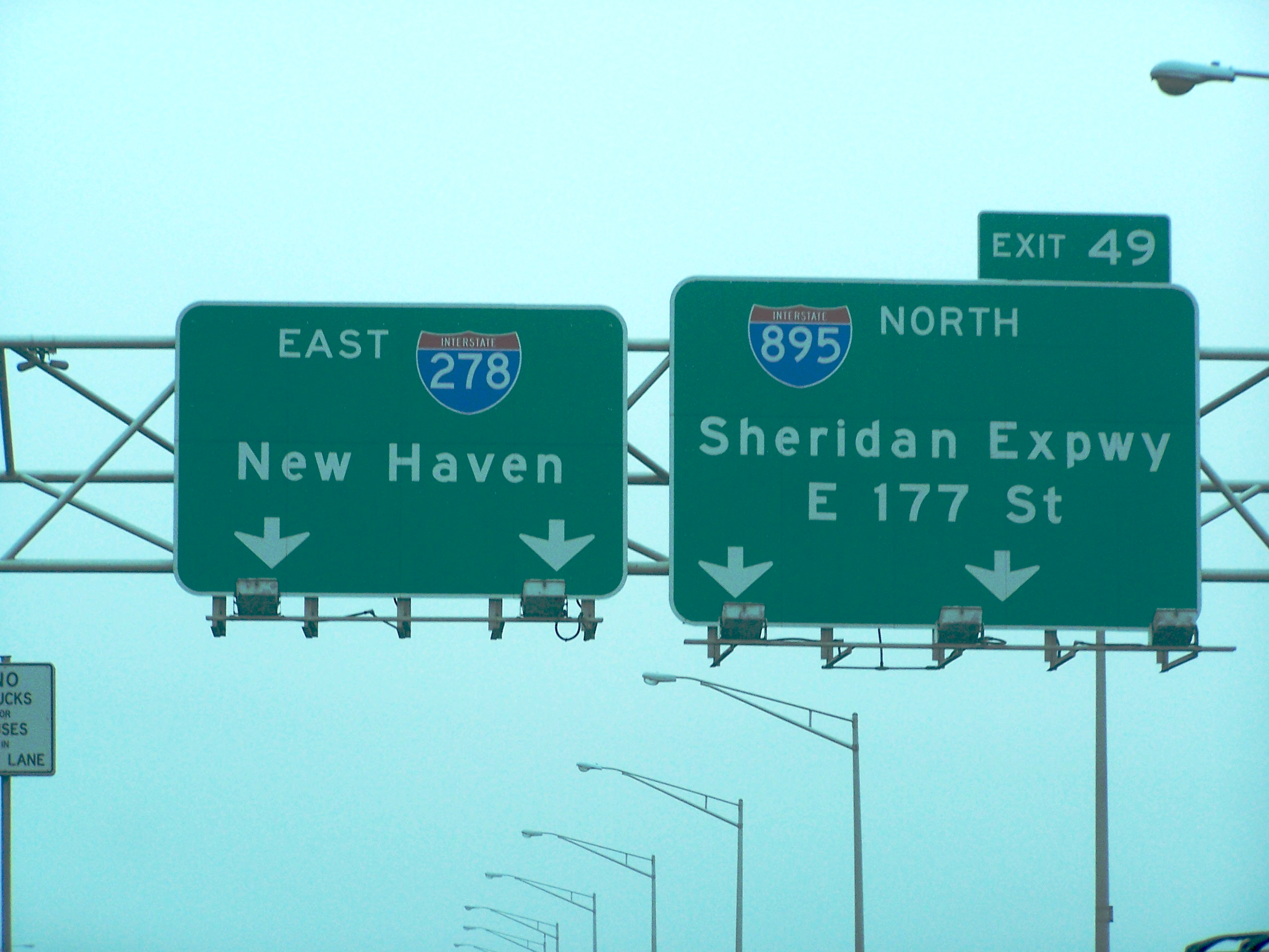 Overheads on Eastbound I-278 for I-895.